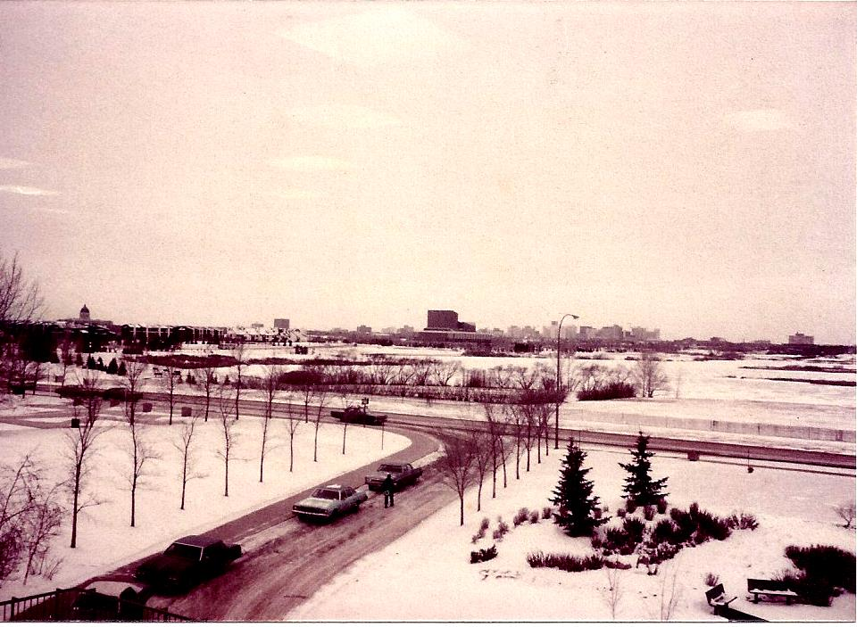 Sask Centre of the Arts winter 1980-81 from U of R laboratory Building showing Wascana Centre and downtown